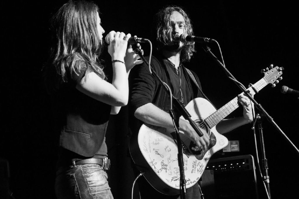 The Black Feathers performing at The Green Note, London 07/25/2014